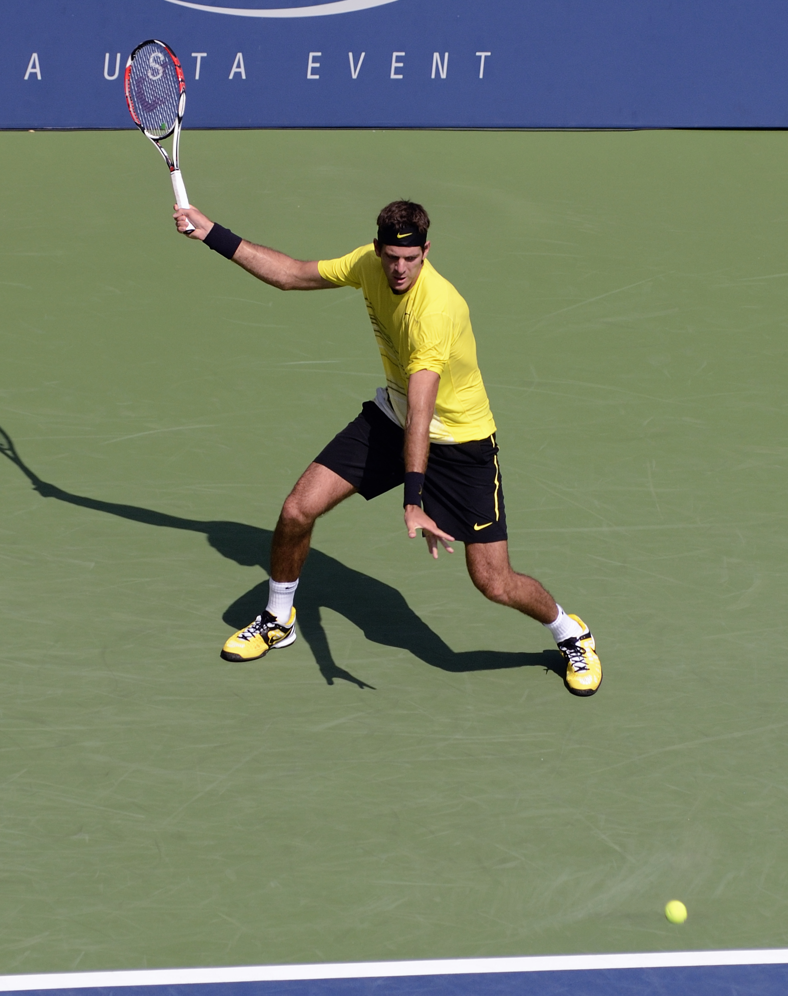 delpo back swing